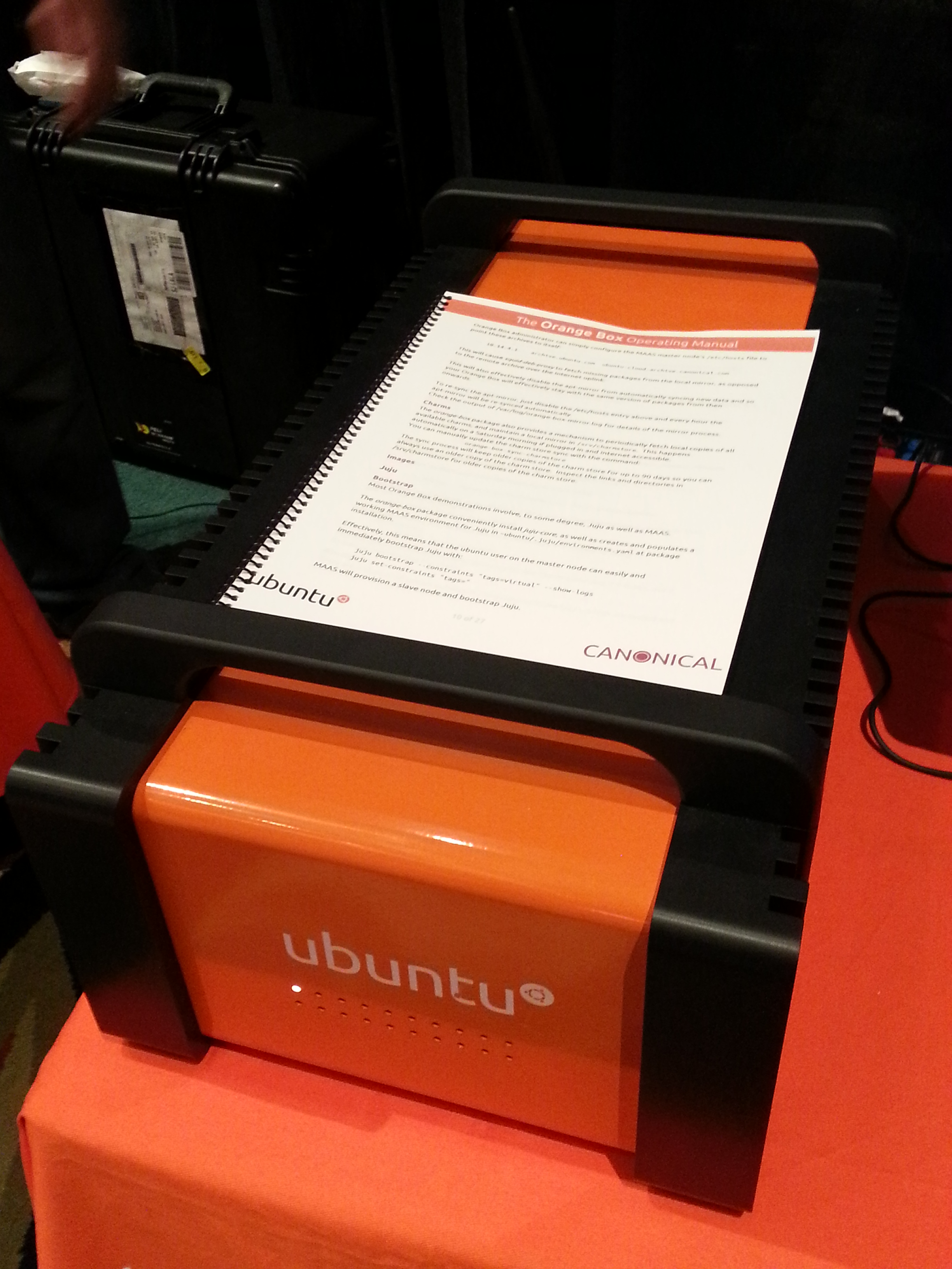 Ubuntu Orange Box at Fossetcon 2014